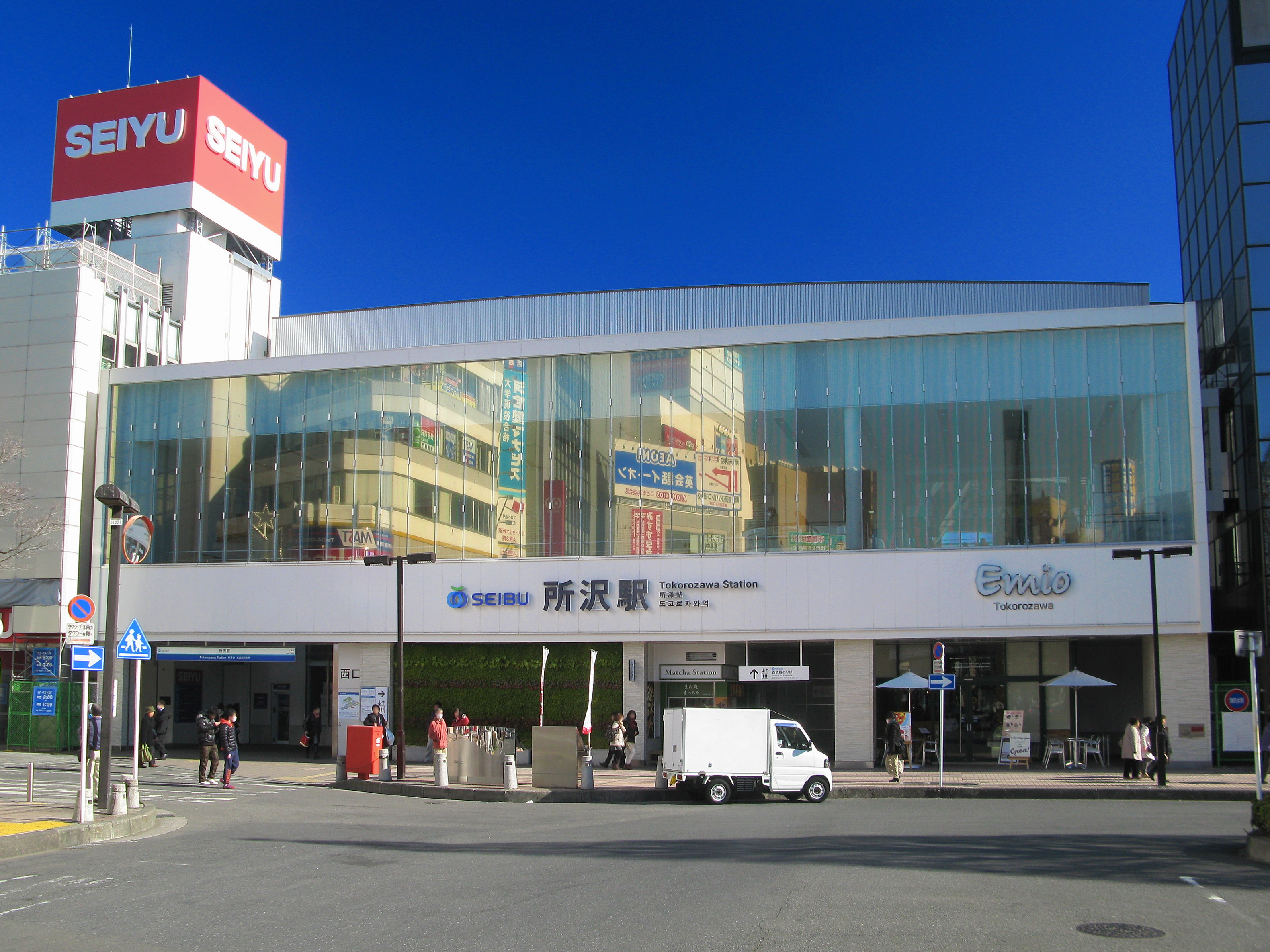 West entrance of Tokorozawa Station on the Seibu Ikebukuro and Shinjuku Lines